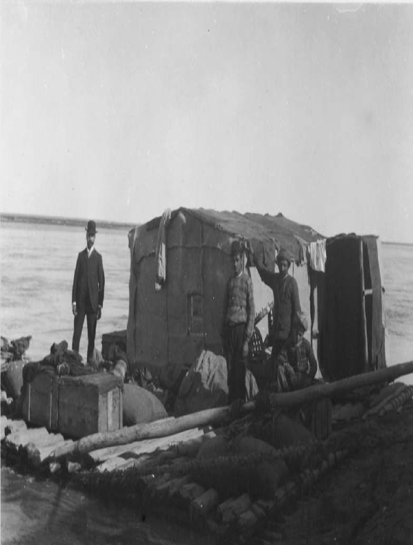 Herzfeld's expedition to Assur